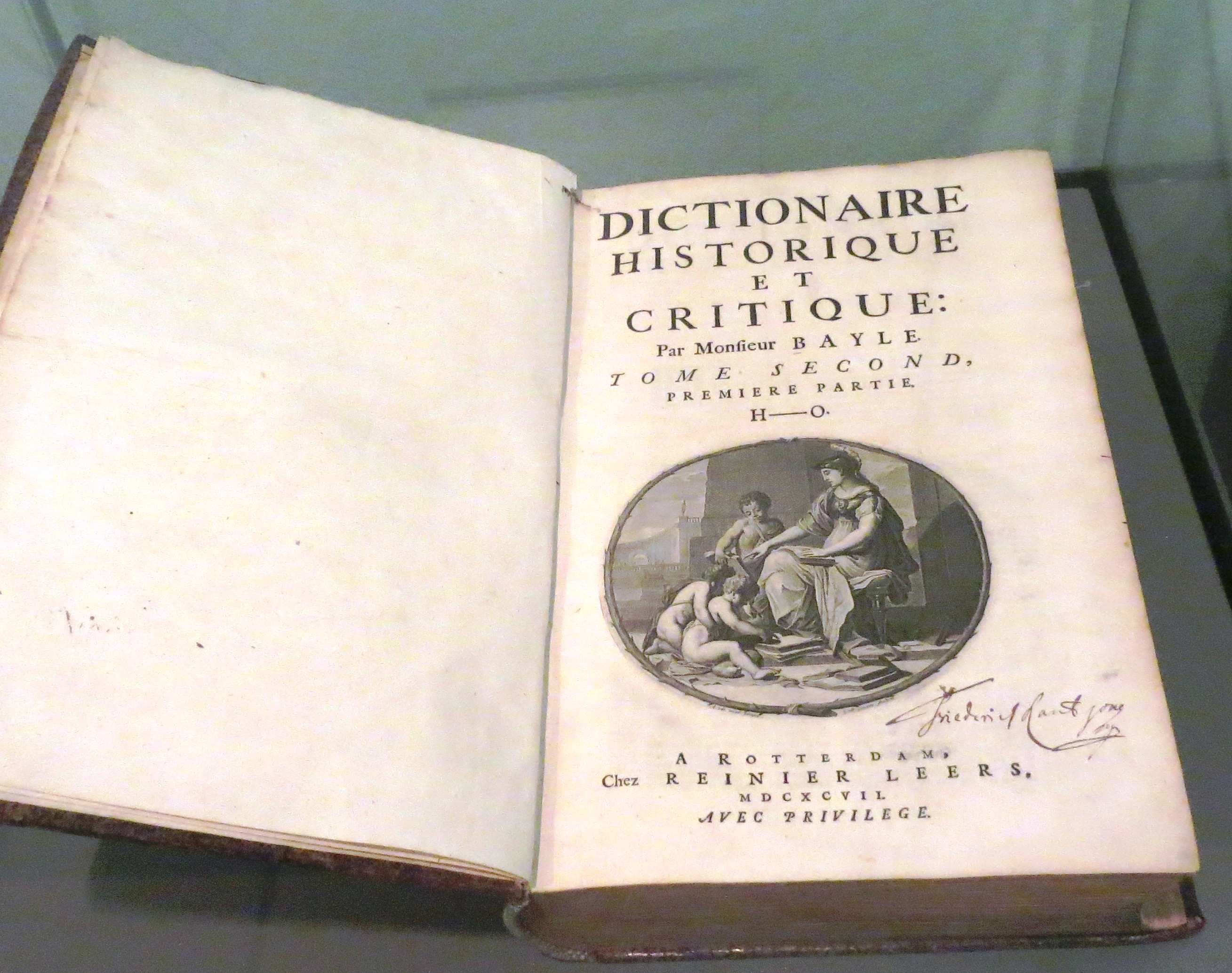 Pierre Bayle encyclopedia printed in Rotterdam, 1697, in french language. Nasjonalbiblioteket, Oslo